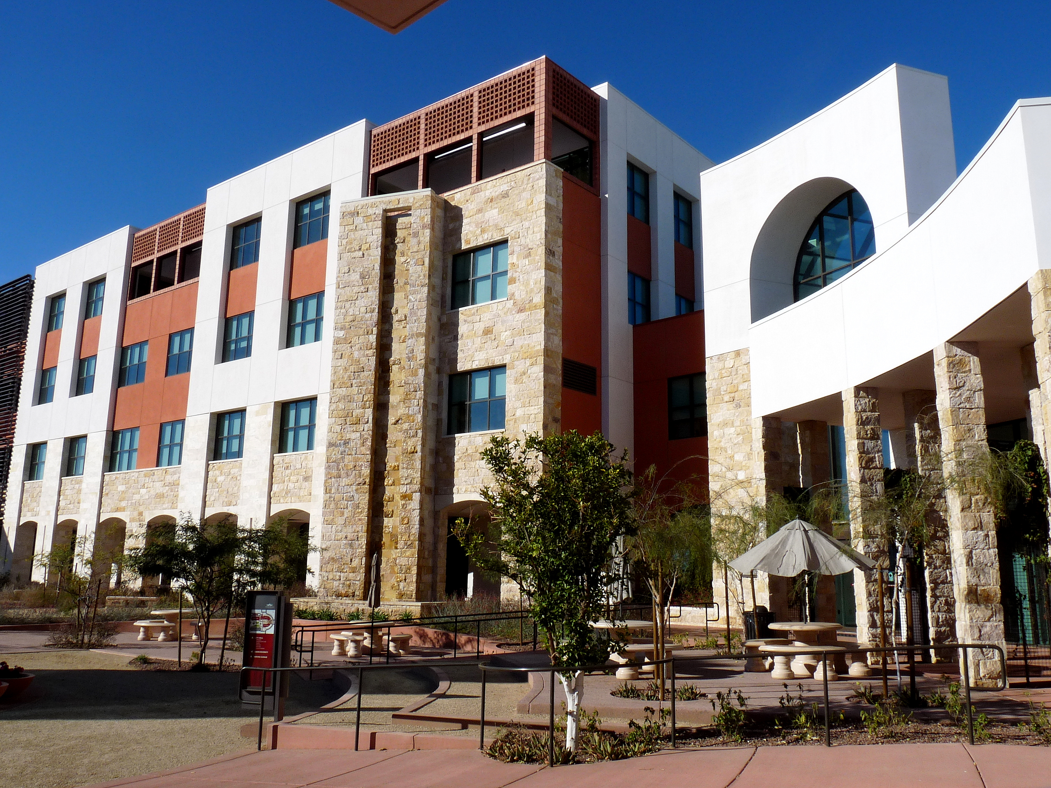 The image represents the new City Hall of the City of Surprise, Arizona, the United States of America. All the buildings, as the entire absolutely new Civic Center of the City of Surprise, were dedicated in October 2009.